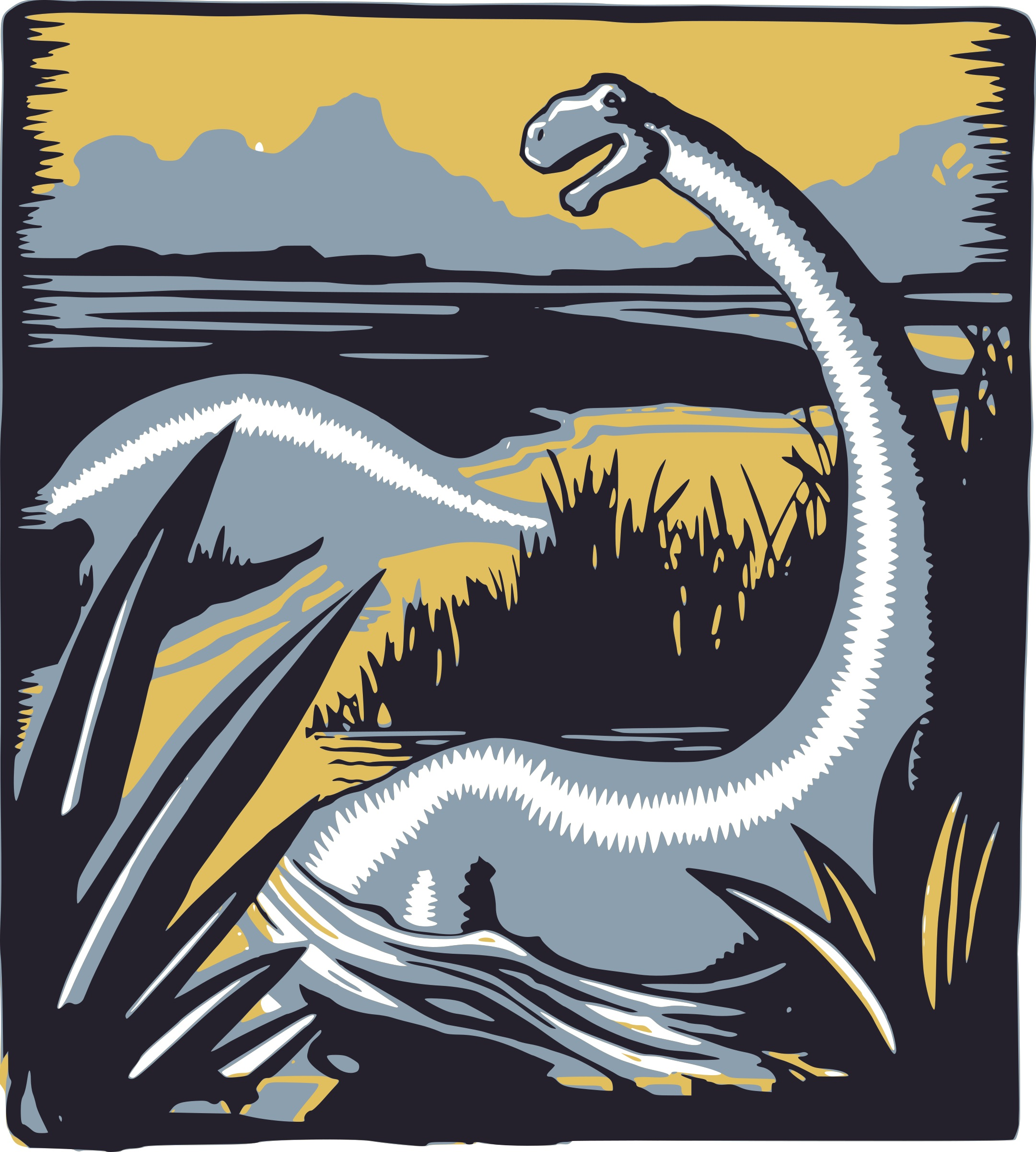 Brontosaurus clipart found on OpenClipart. Clearly derived from File:Pasta-Brontosaurus.jpg